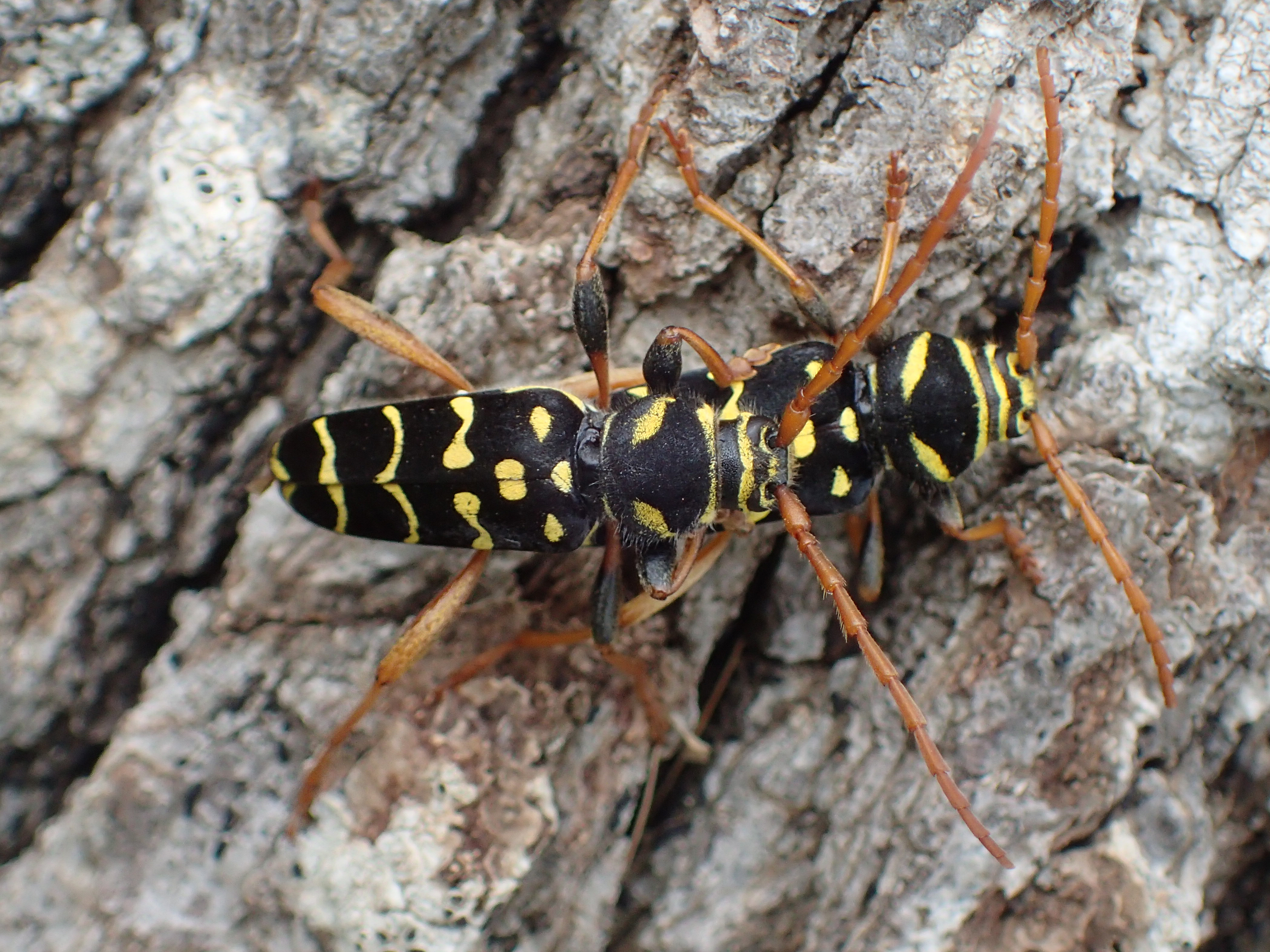 Plagionotus arcuatus from Greece, Peloponnese near Andritsena at 2016-05-12